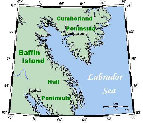 A map showing Cumberland Sound and nearby areas. This map's source is here, with the uploader's modifications, and the GMT homepage says that the tools are released under the GNU General Public License.